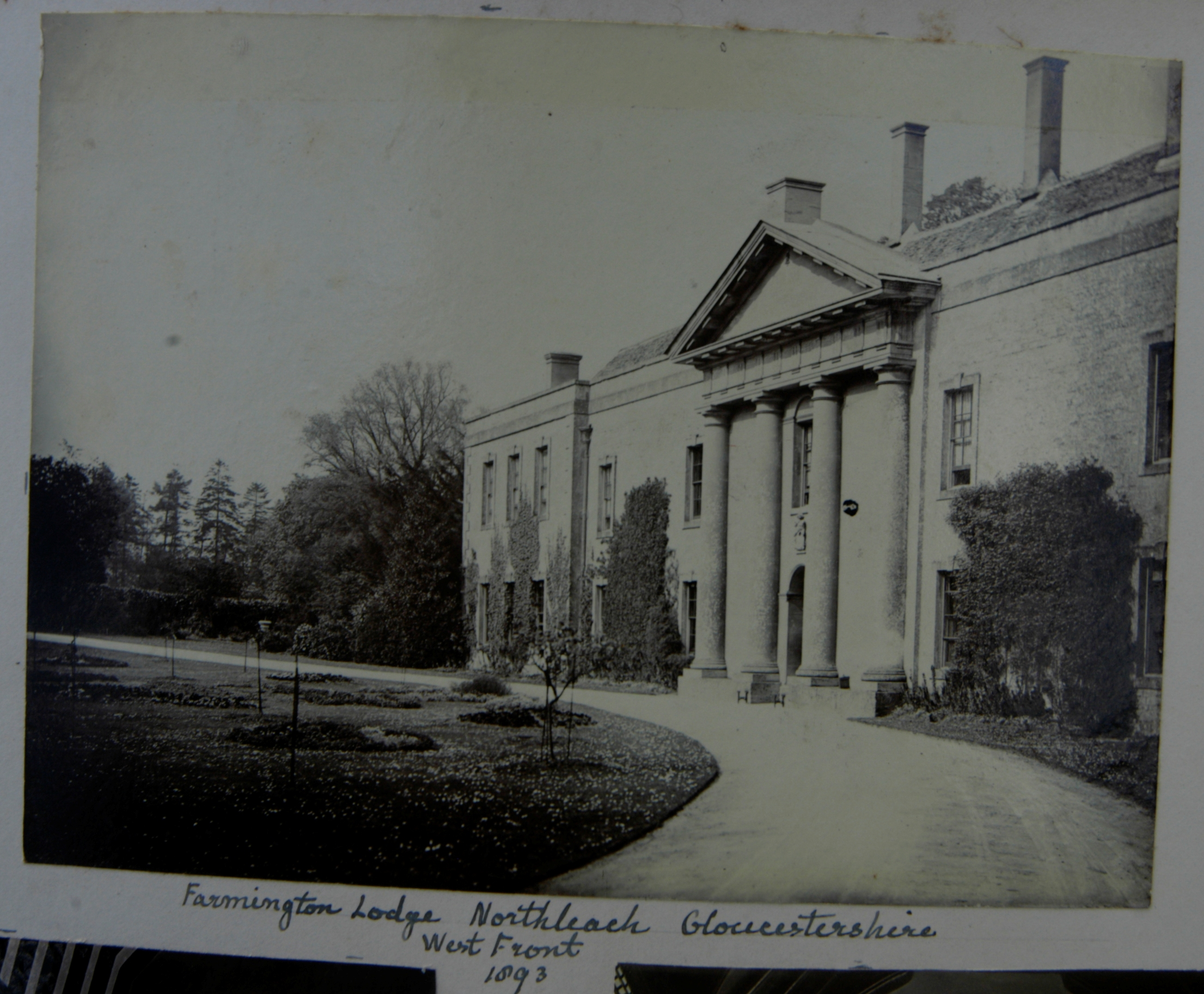 Photo (by me, R. de Salis, Rodolph (talk) 23:39, 13 August 2015 (UTC)) of an 1893 photo of Edmund Waller's (d.1898) Farmington Lodge, Northleach, Gloucestershire, west front.